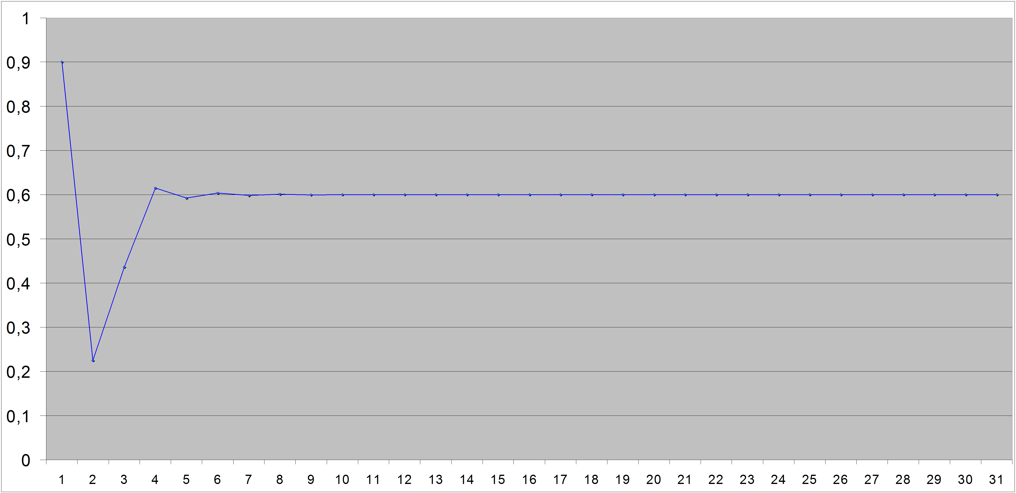 Graph that shows solutions of a function when r equals 2.5 for n=0 to 31. It is clear that, after a while, xn gets infinitely close to the value of 0.6.